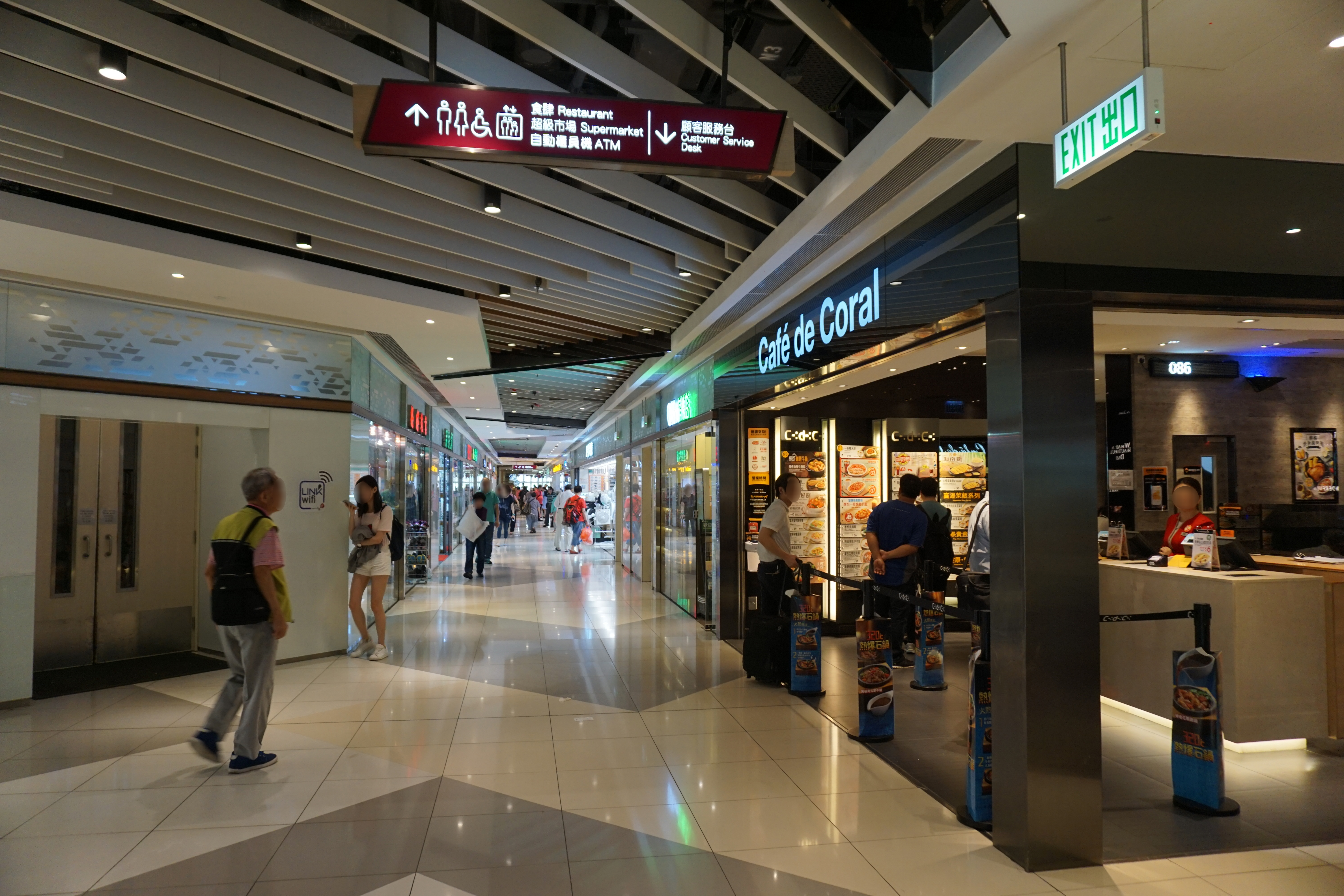 Un Chau Shopping Centre in Cheung Sha Wan, Hong Kong.